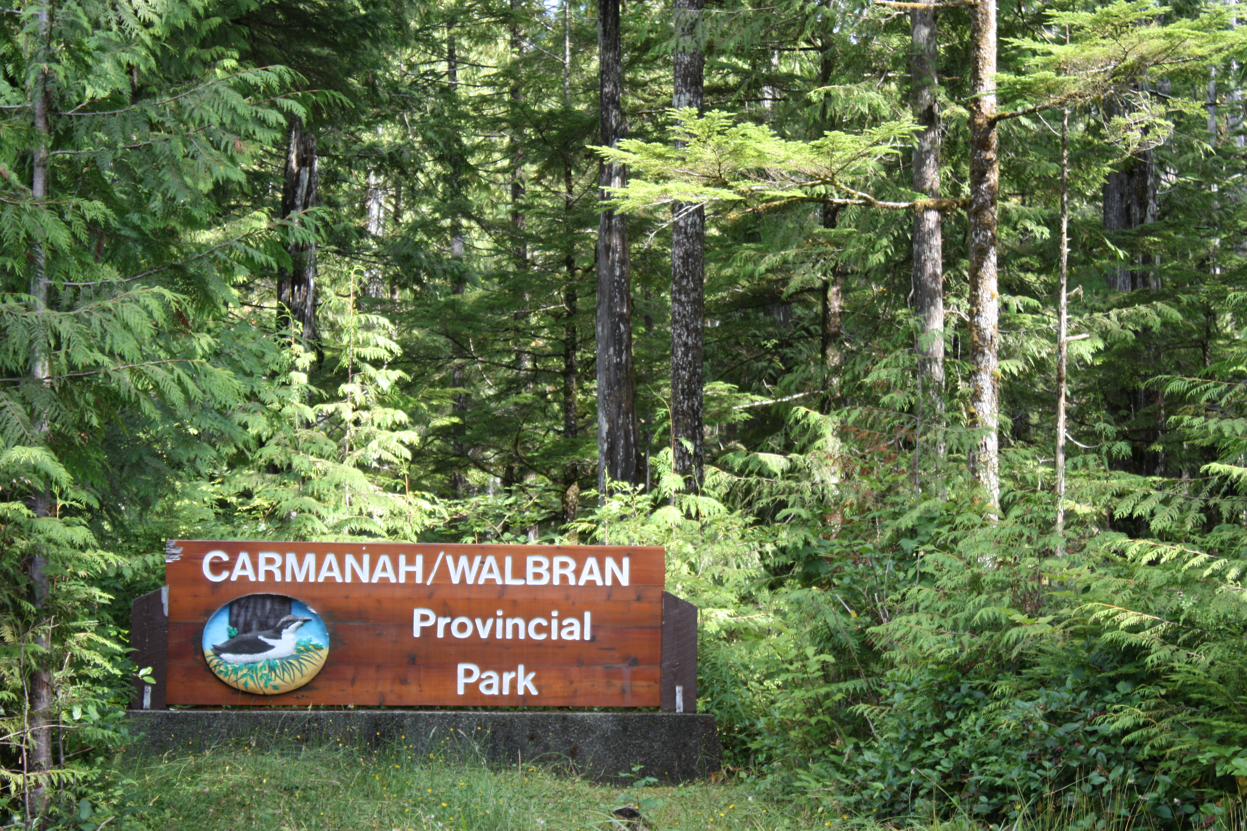 Image of sign at Carmanah Walbran Provincial Park